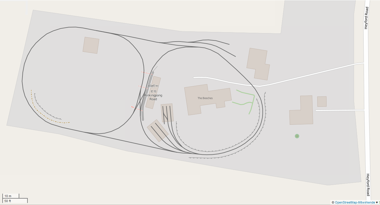 Beeches Light Railway (OpenStreetMap)